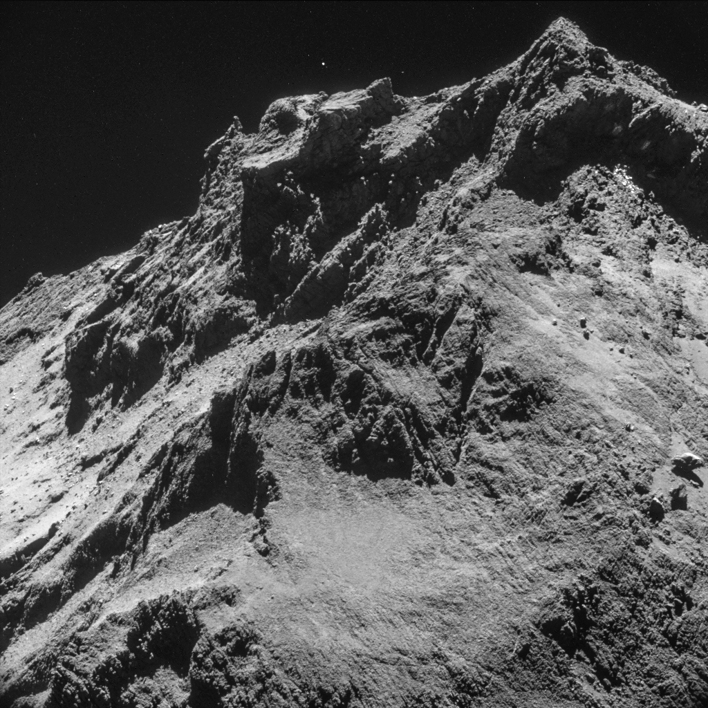 ESA’s comet-chasing Rosetta mission spent much of the second half of October orbiting Comet 67P/Churyumov–Gerasimenko at less than 10 km from its surface. This selection of previously unpublished ‘beauty shots’, taken by Rosetta’s navigation camera, presents the varied and dramatic terrain of this mysterious world from this close orbit phase of the mission. Some light contrast enhancements have been made to emphasise certain features and to bring out features in the shadowed areas. In reality, the comet is extremely dark -– blacker than coal. The images, taken in black-and-white, are grey-scaled according to the relative brightness of the features observed, which depends on local illumination conditions, surface characteristics and composition of the given area. Some slight vignetting can also be seen in the corners of some images. Credit: ESA/Rosetta/NAVCAM, CC BY-SA 3.0 IGO This work is licenced under the Creative Commons Attribution-ShareAlike 3.0 IGO (CC BY-SA 3.0 IGO) licence. The user is allowed to reproduce, distribute, adapt, translate and publicly perform this publication, without explicit permission, provided that the content is accompanied by an acknowledgement that the source is credited as 'European Space Agency - ESA', a direct link to the licence text is provided and that it is clearly indicated if changes were made to the original content. Adaptation/translation/derivatives must be distributed under the same licence terms as this publication. To view a copy of this license, please visit